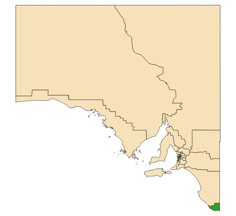 Electoral district 2018 boundaries shown in green